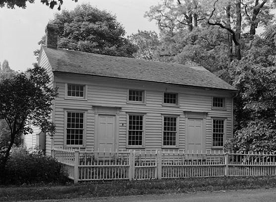 Old Parsonage, Old Chatham (Columbia County, New York) cropped